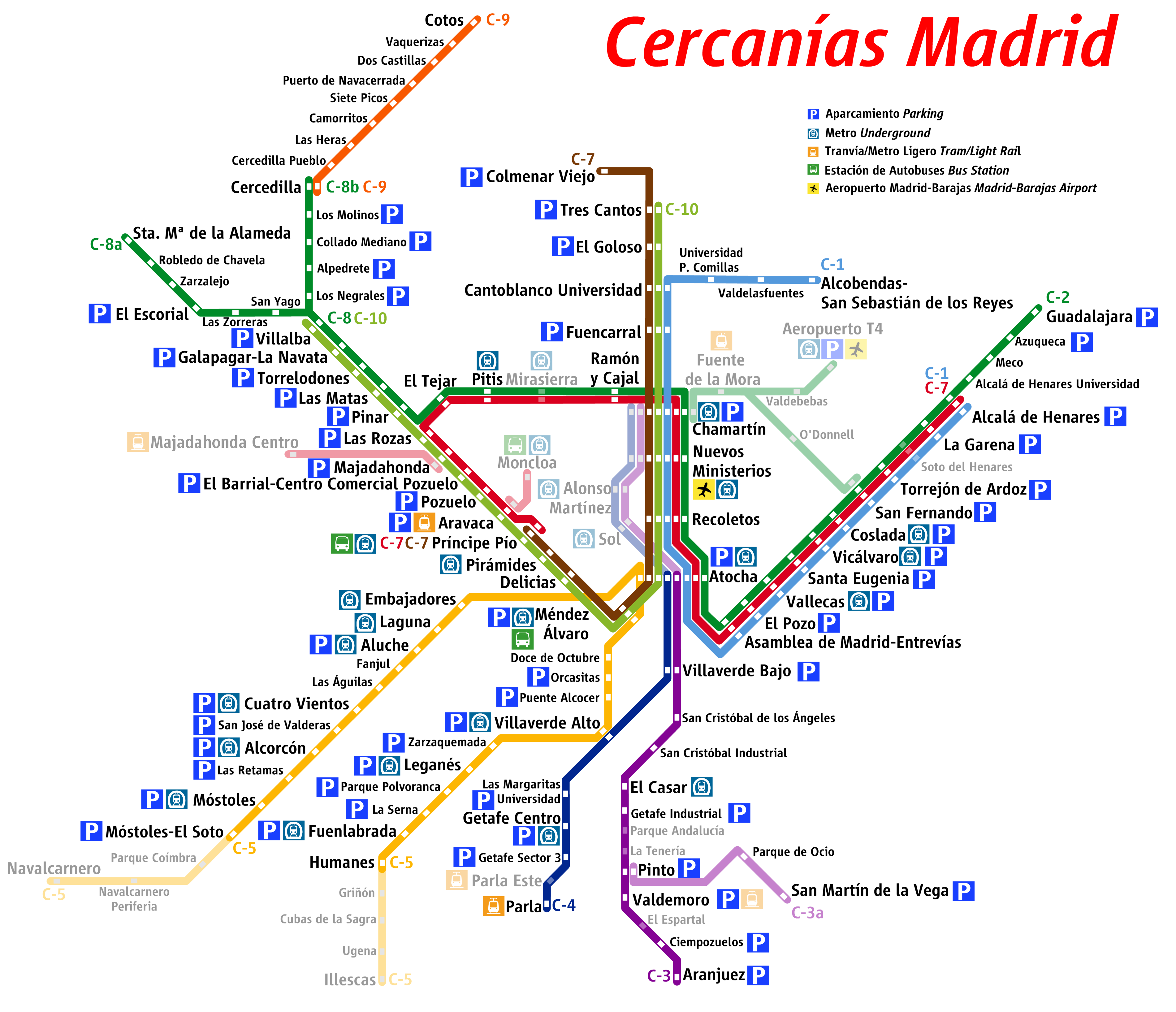 Mapa de la red de Cercanías Madrid (2007), con futuras ampliaciones / Map of Madrid suburban rail network (as of 2007), with future extensions